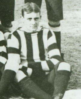 Photograph of Harry Lees in 1908